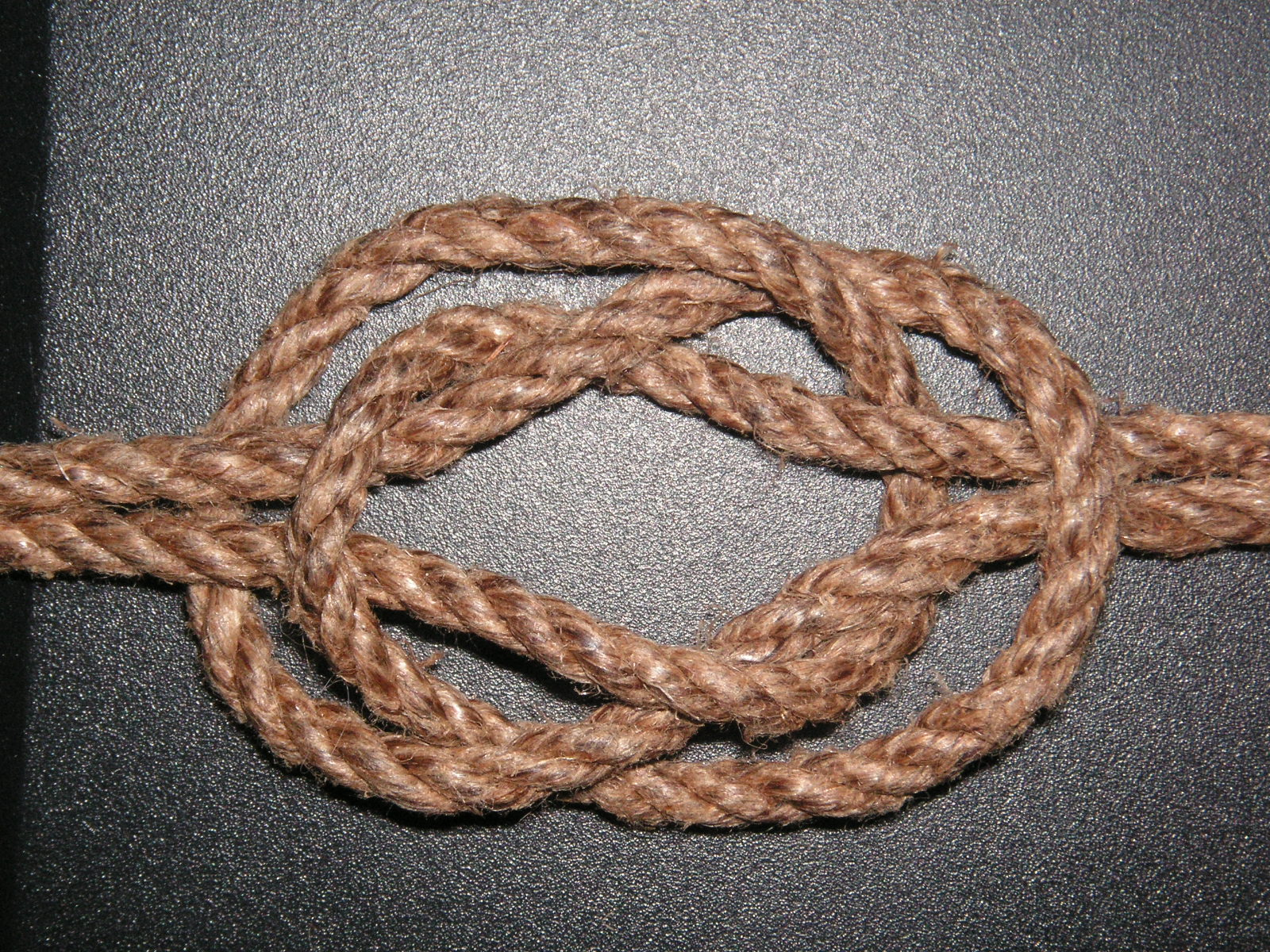 This work has been released into the public domain by its author, User:Sebbe|Sebbe . This applies worldwide. In some countries this may not be legally possible; if so: User:Sebbe|Sebbe grants anyone the right to use this work for any purpose, without any conditions, unless such conditions are required by law.